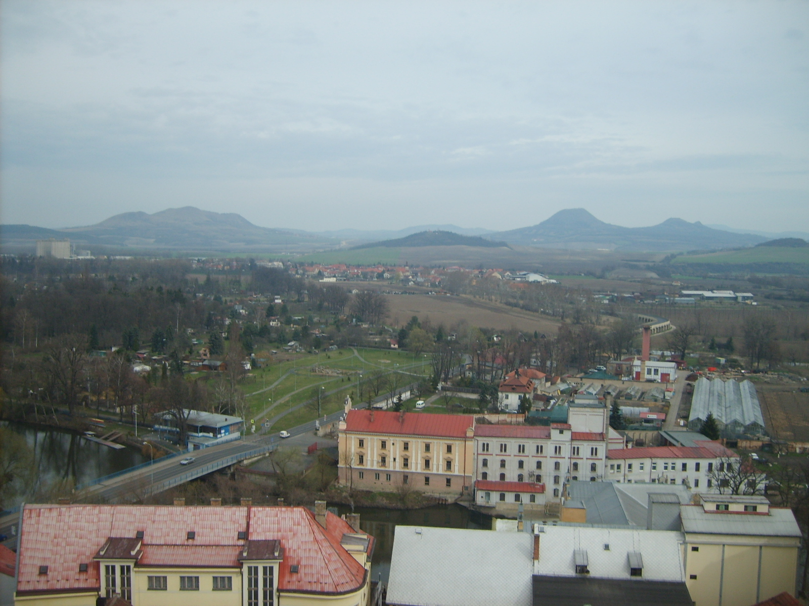 View to České Středohoří mountains (hills Raná and Oblík) from St. Nicholas Cathedral Tower in Louny. Česky: Výhled na České středohoří (vrcholy Raná a Oblík) z věže chrámu Sv. Mikuláše v Lounech.